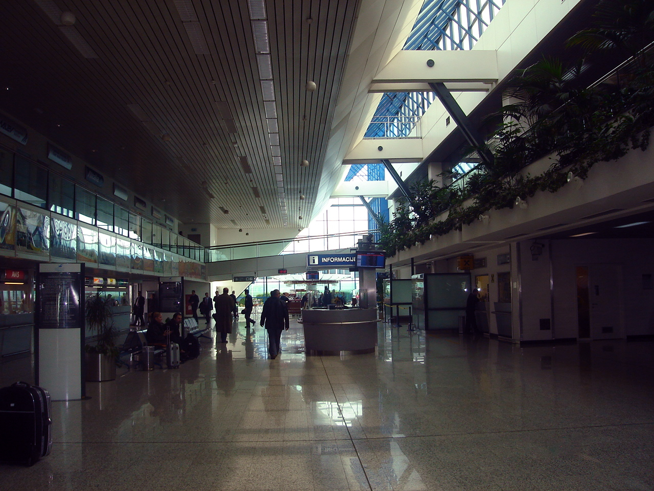 Inside Sarajevo airport, Bosnia & Herzegovina.